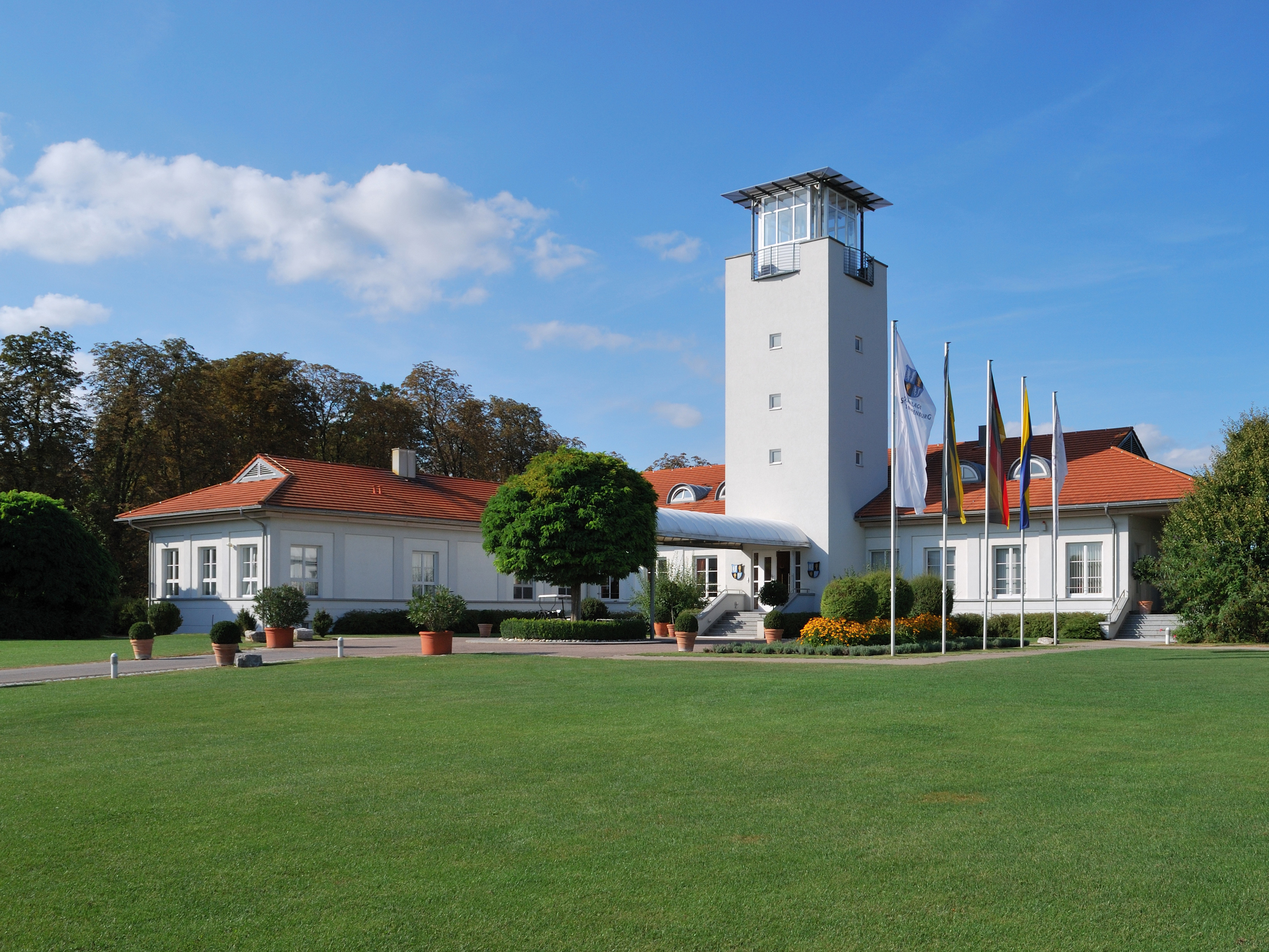 Club house of the golf course Schloss Nippenburg in Schwieberdingen near Stuttgart in Southern Germany.